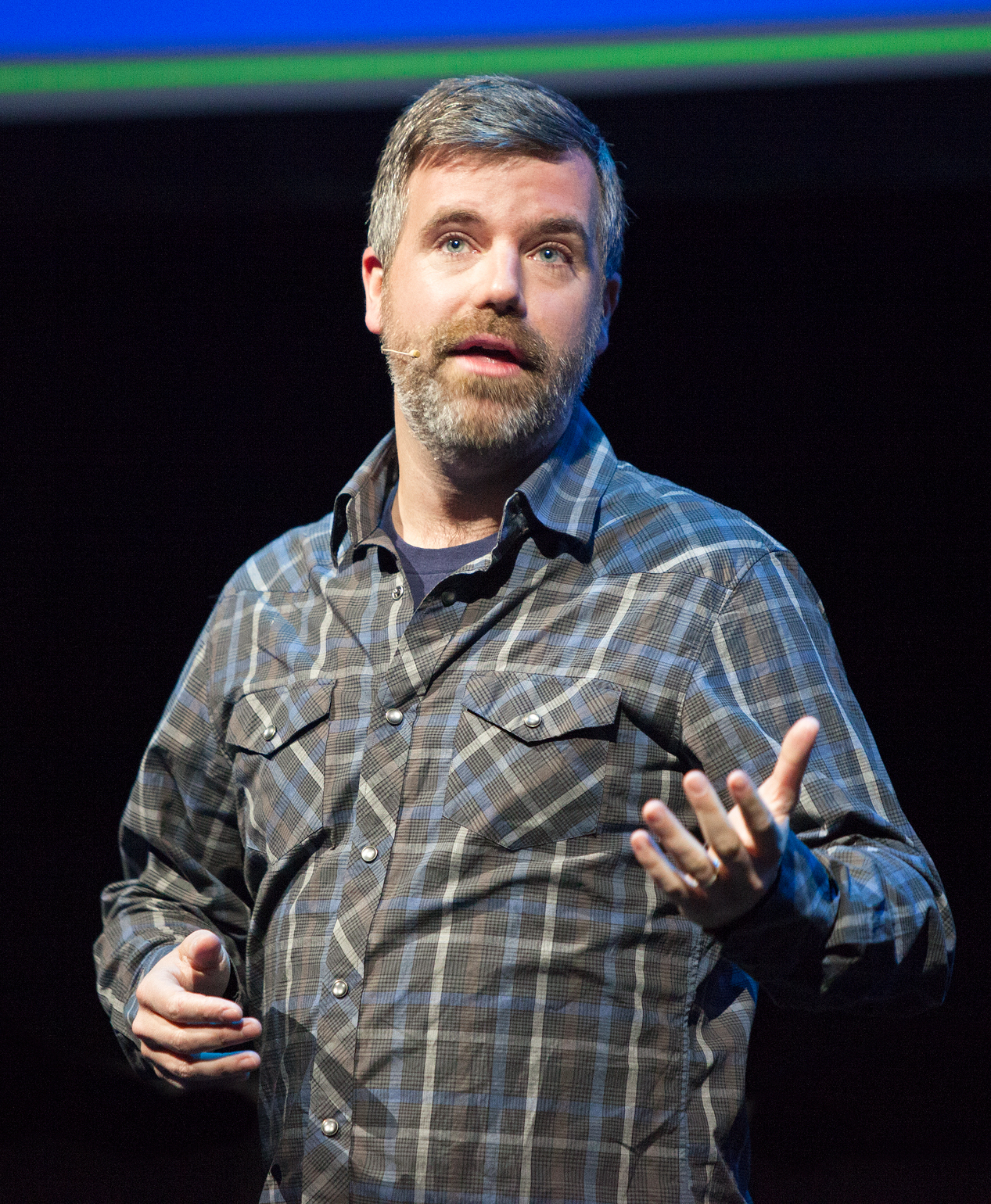 Gulltaggen was founded in 1998, first and foremost to stimulate and reward the heroes in digital creativity. Today, Gulltaggen is the largest event in Norway and the Nordic countries within digital marketing, communication, innovation, leadership and creativity. It has by far become the best arena for sharing competence, knowledge and networking. Gulltaggen is organized by the non-profit trade organizationINMA / IAB Norway Fotograf: Jarle Naustvik